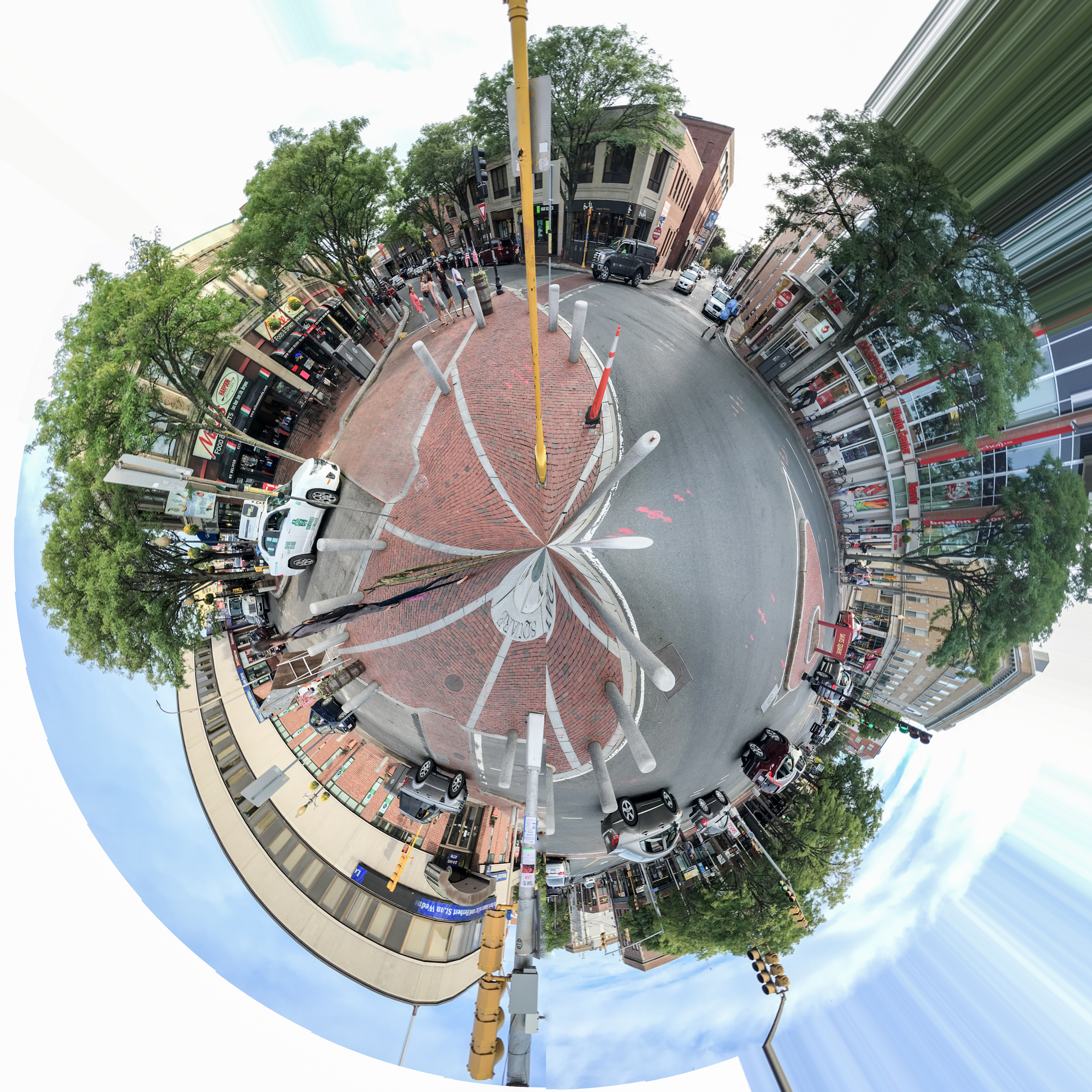 A panoramic photosphere taken from the middle of Davis Square, Somerville MA, USA.